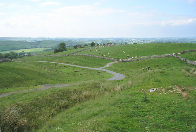 Coming down to Nateby. The road from Swaledale.